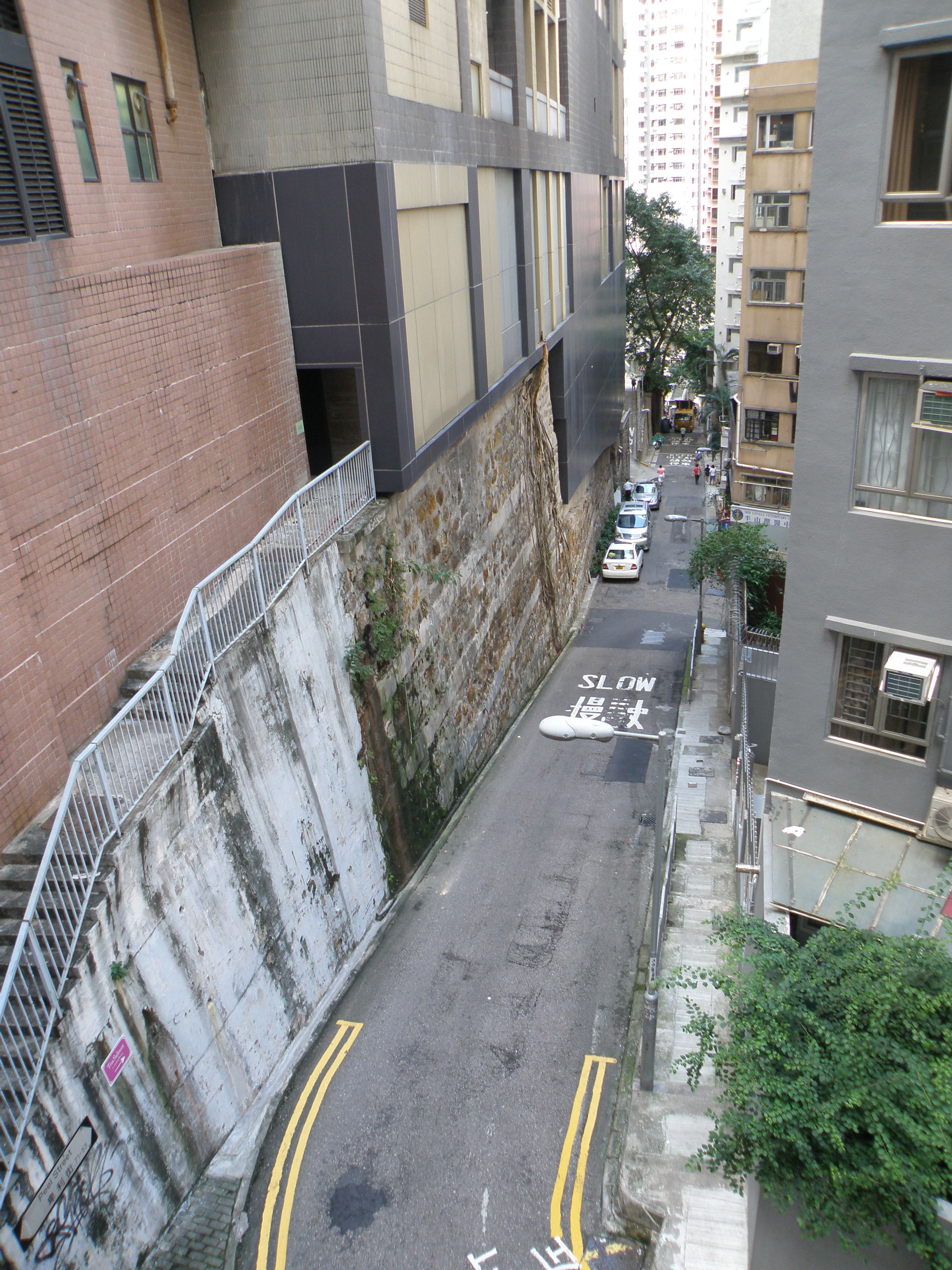 Hong Kong Peel Street (south end overlook).